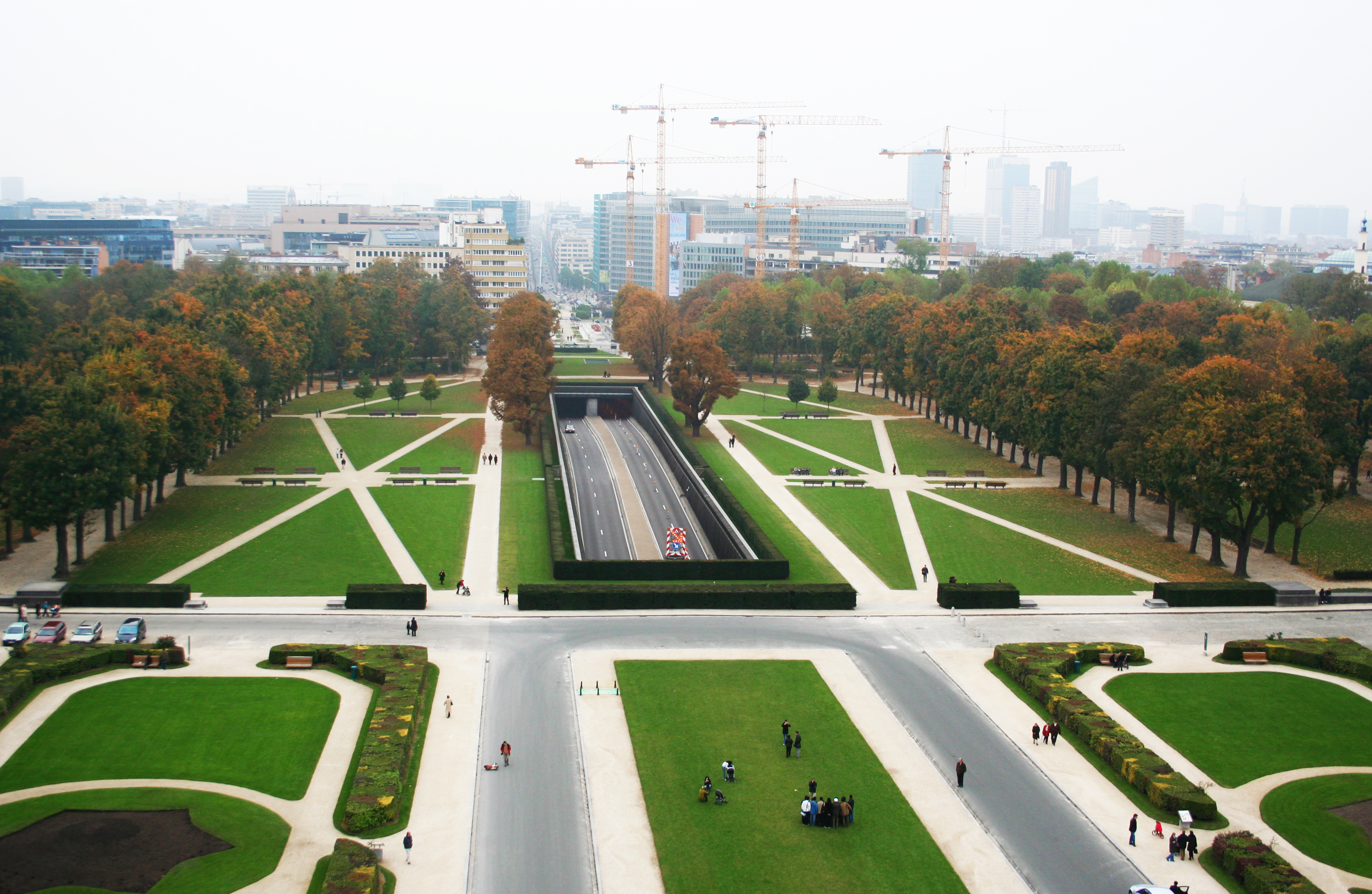 The Cinquantenaire park in Brussels.